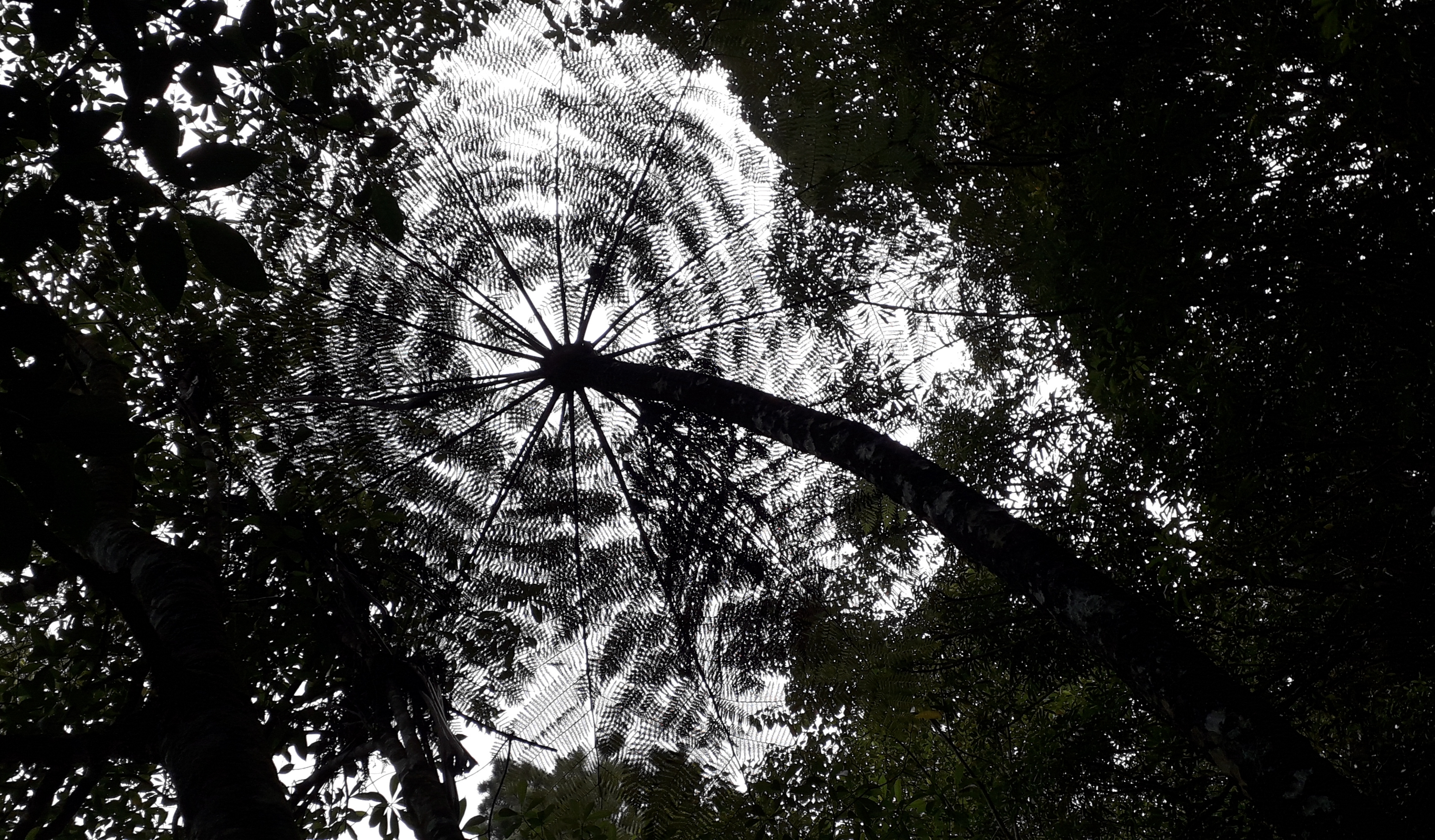 A picture of the tree canopy as seen from the forest floor of the Kinabalu Park, which happens to be Malaysia's first world heritage site. Provides shade and habitable spaces for the rich diverse wildlife in the area.